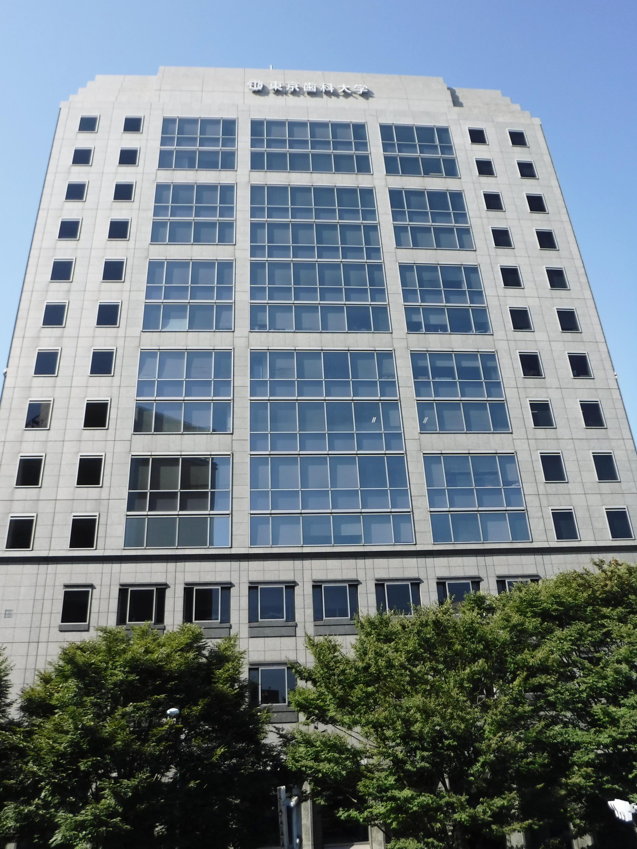 Main building of Suidobashi Campus, Tokyo Dental College, located in Chiyoda-ku, Tokyo, Japan.